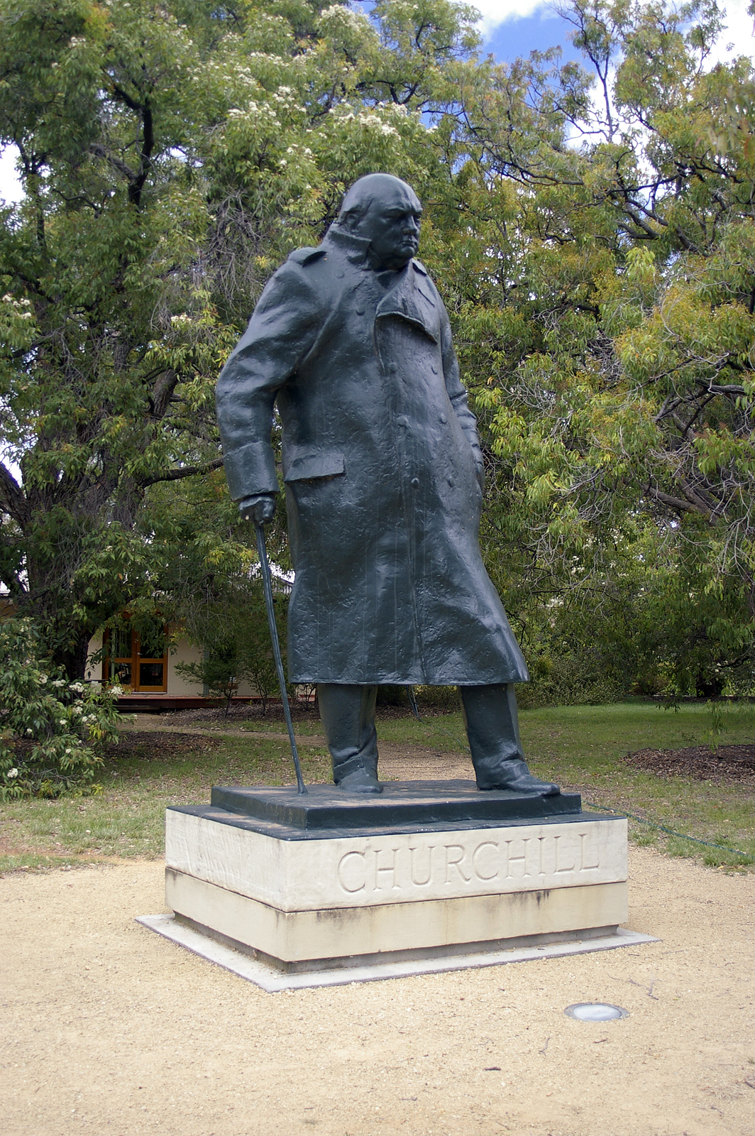 Winston Churchill statue located beside Churchill House, in the Australian National University in Canberra, Australian Capital Territory. (Apparent duplicate of a statue in Parliament Square, London.) Other views of the statue: [1][2][3][4]